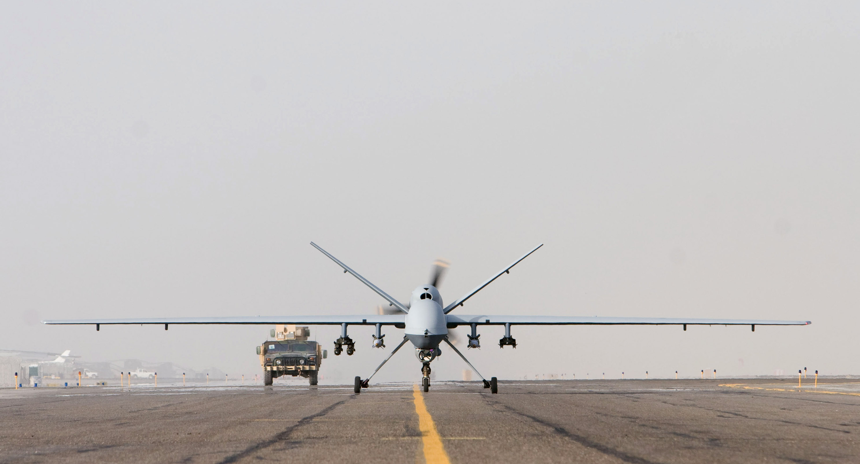 An MQ-9 Reaper takes off for a mission in Afghanistan Sept. 31. The MQ-9 has nearly nine times the range, can fly twice as high and carries more munitions than the MQ-1 Predator. (Courtesy photo)